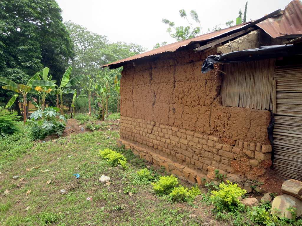 This mud brick house at Kouma-Konda village near Kpalime, Togo, illustrates the type of construction materials used in this area.